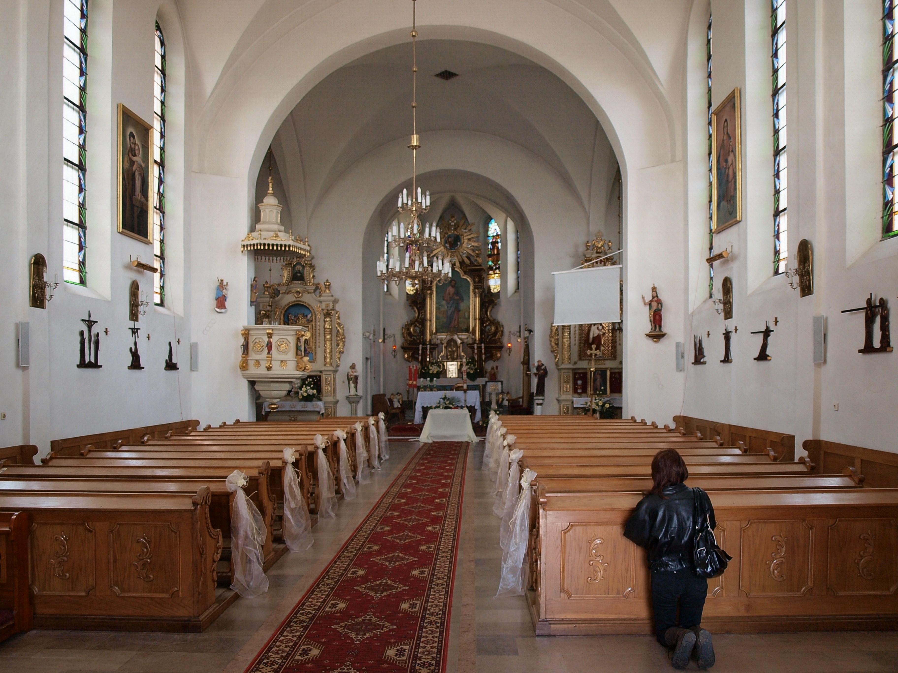 Samocice, parish church of St. Bartholomew, inside